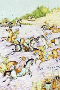 A miniature by Hossein Behzad (1894-1968).